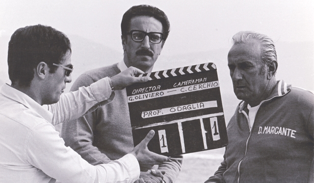 Prof. Giorgio Odaglia and Duilio Marcante in Nervi (GE), 1973